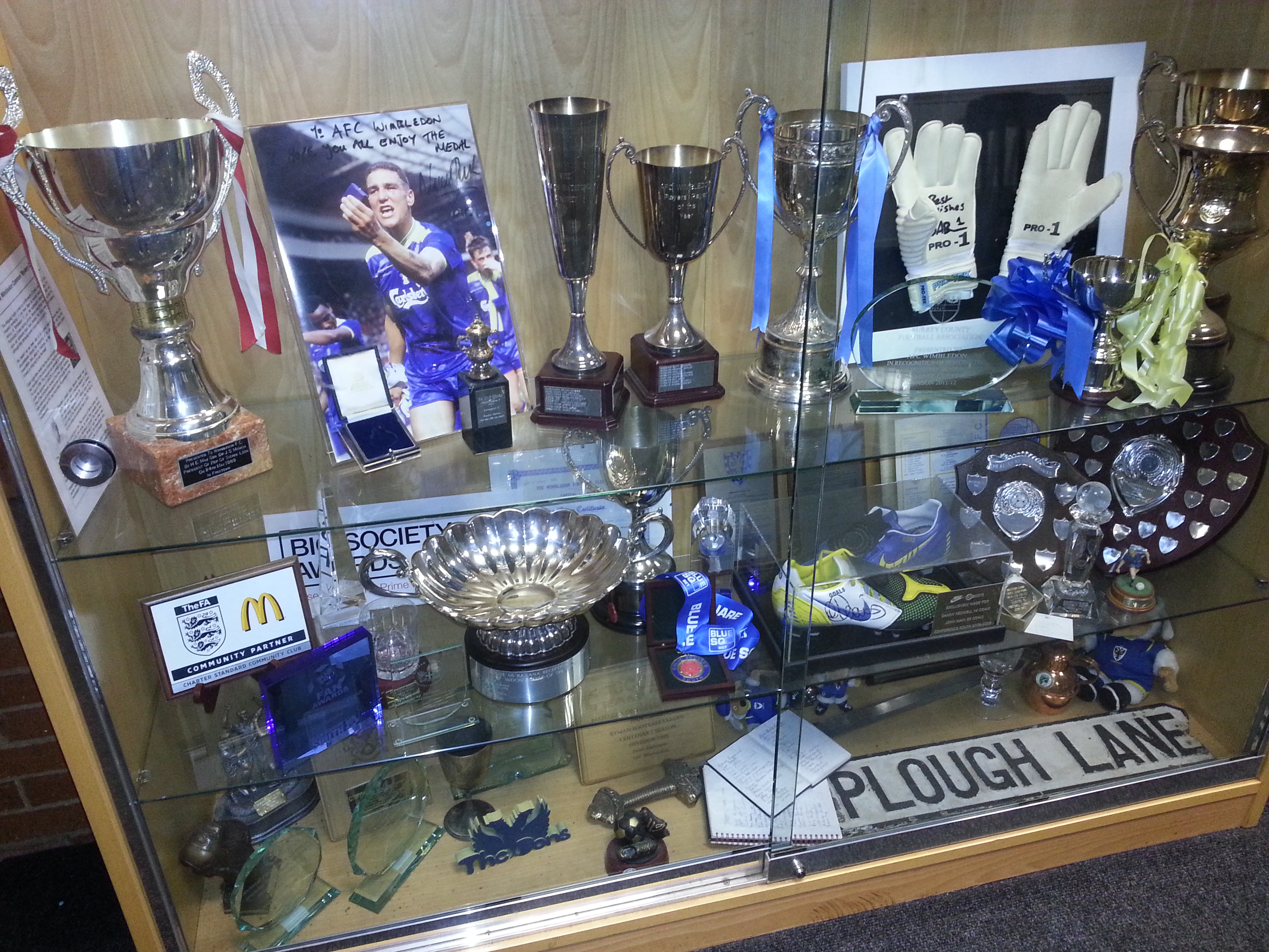 The sword from the "battle of the sword" on the bottom shelf of the prize cabinet at Kingsmeadow.